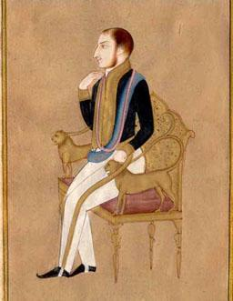 Indian picture presenting lord Dalhousie, governor-general of British India